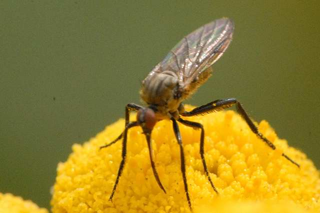 Empis picipes from Commanster, Belgian High Ardennes .